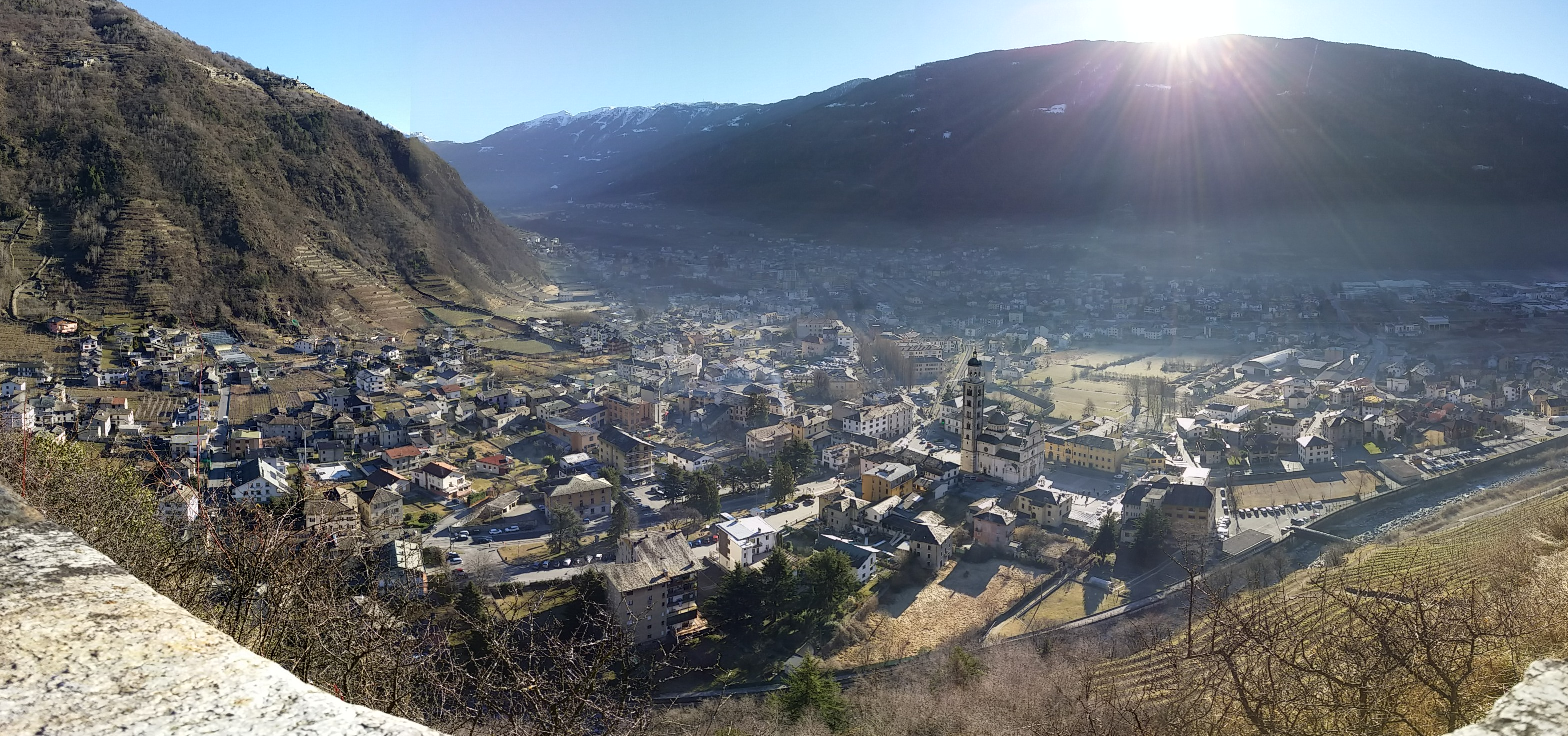 Sunrise in Tirano, Italy